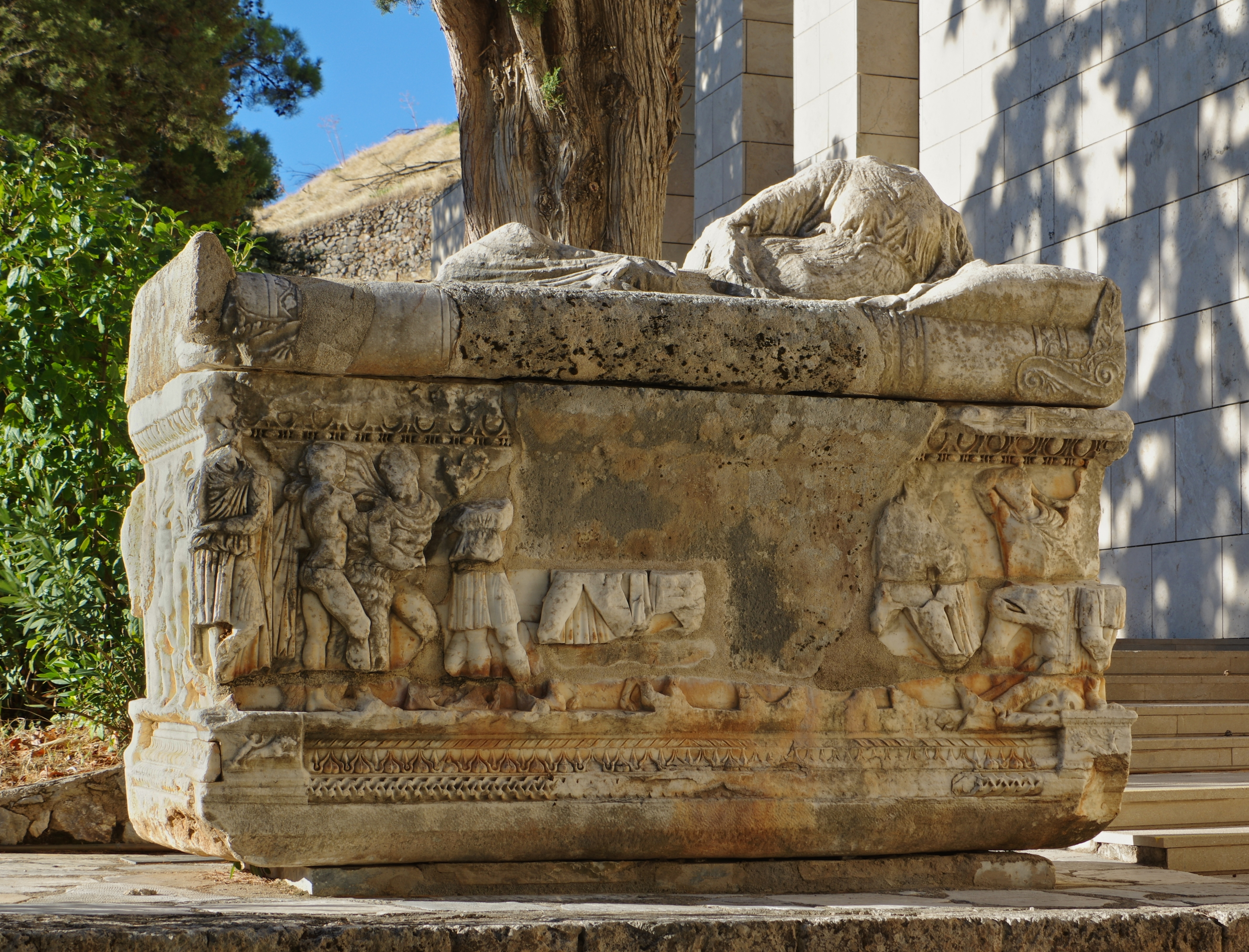 Greece, Delphi, sarcophagus in front of the museum